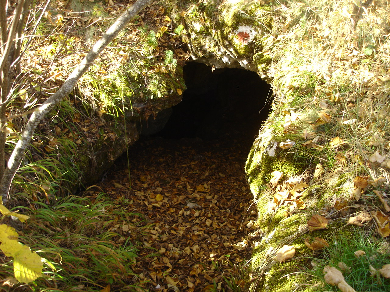 Ramnište Cave, near Prilep, Macedonia